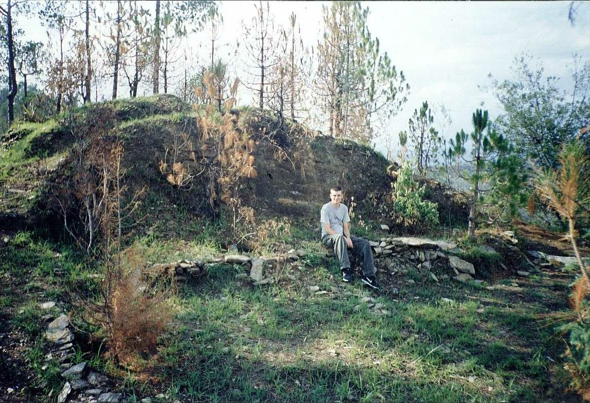 The site of the 'cave' where Alfred Sorensen aka Sunyata lived for approximately 40 years at Kasar Devi, near the town of Almora in India.